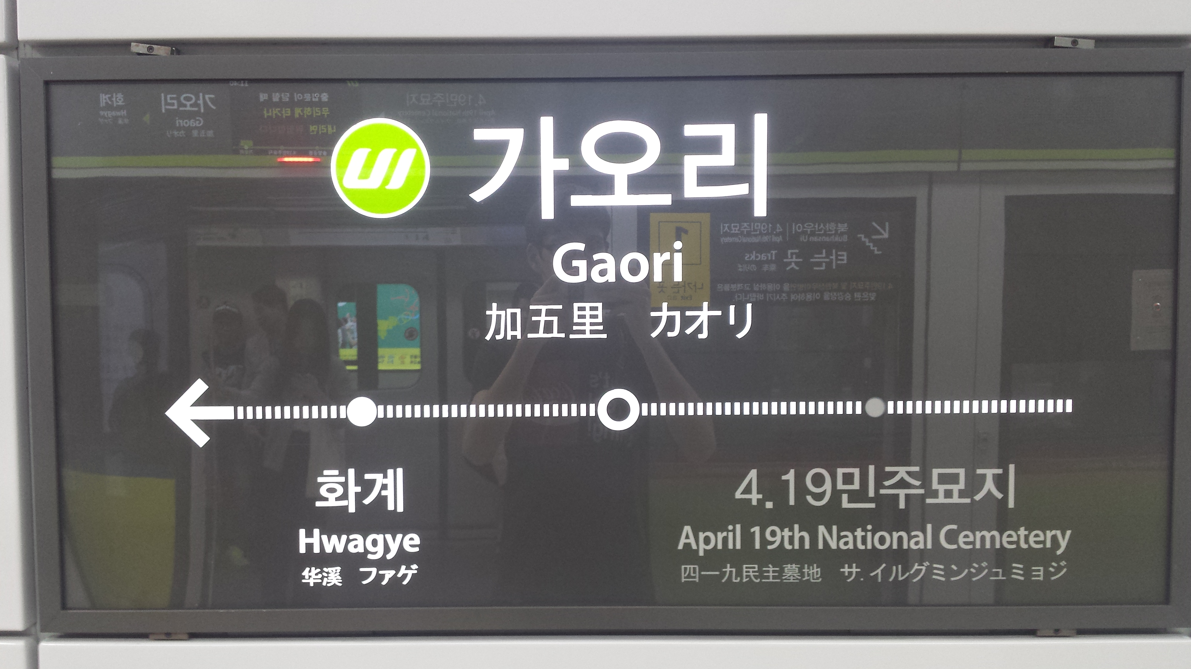 Gaori station sign